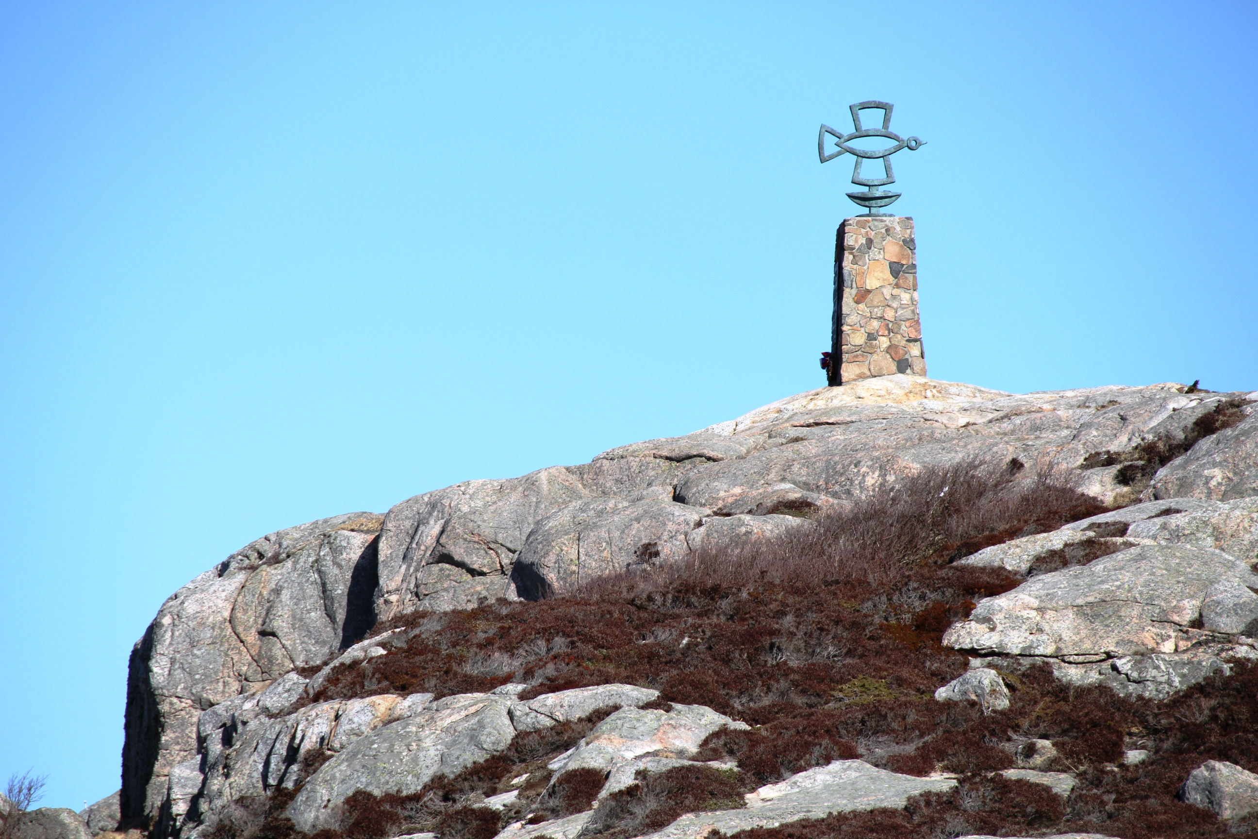 Image from Lindesnes municipality, taken from Lindesnes Lighthouse towards the north. The "Pax Monument" is erected in memory of M/S Palatia which was torpedoed here by the English in 1942. Onboard where 986 russian prisoners-of-war, who all died. The statue is of "Russian bird" of the kind woodcut by so many russian prisoners-of-war during the war.